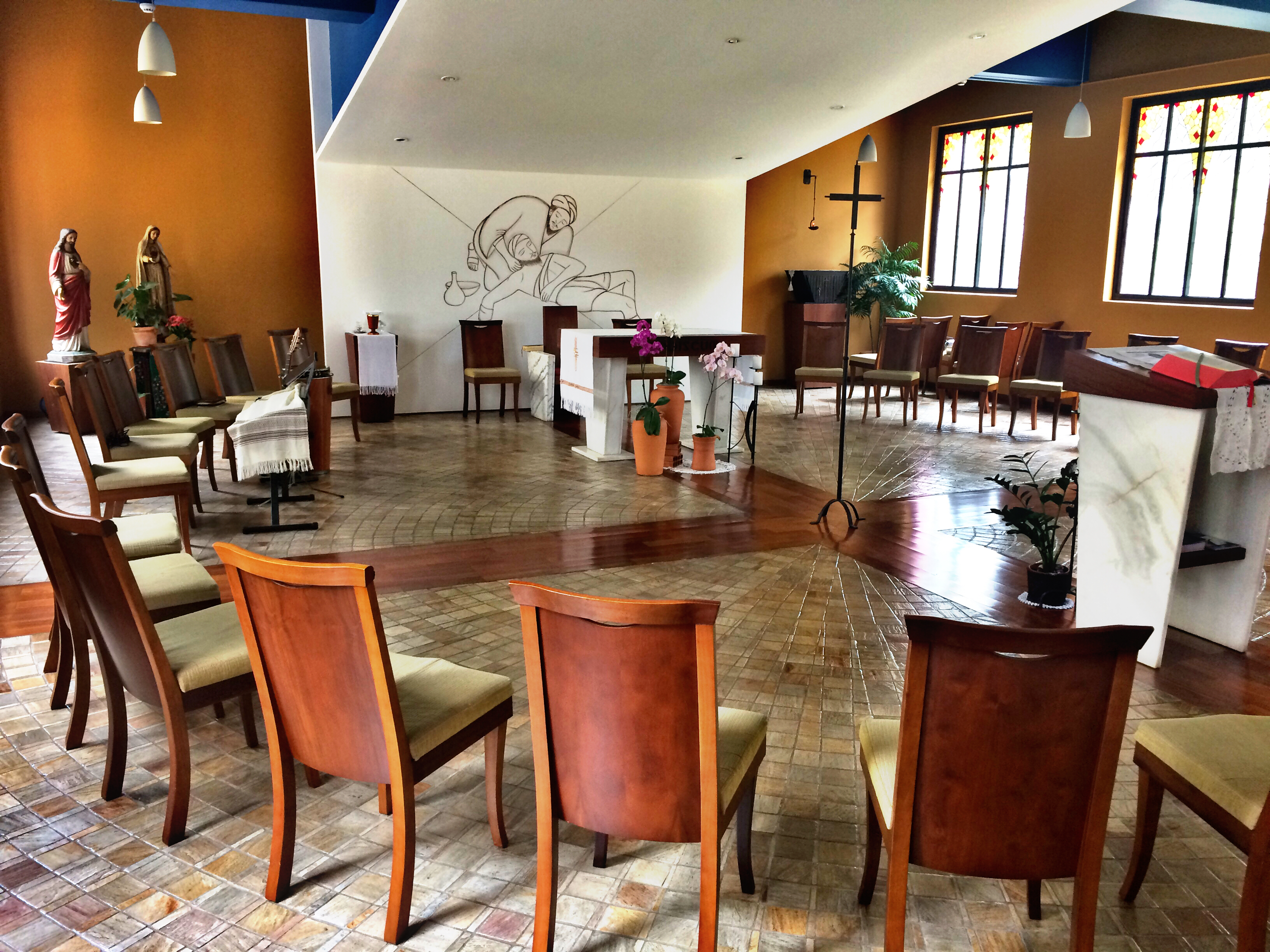 Capela do Seminário João XXIII